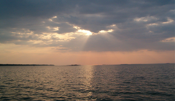 Evening sun at Preiviiki bay in Pori, Finland